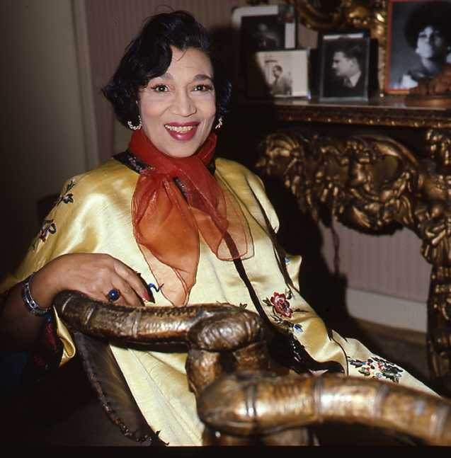 portrait of Elizabeth Welch